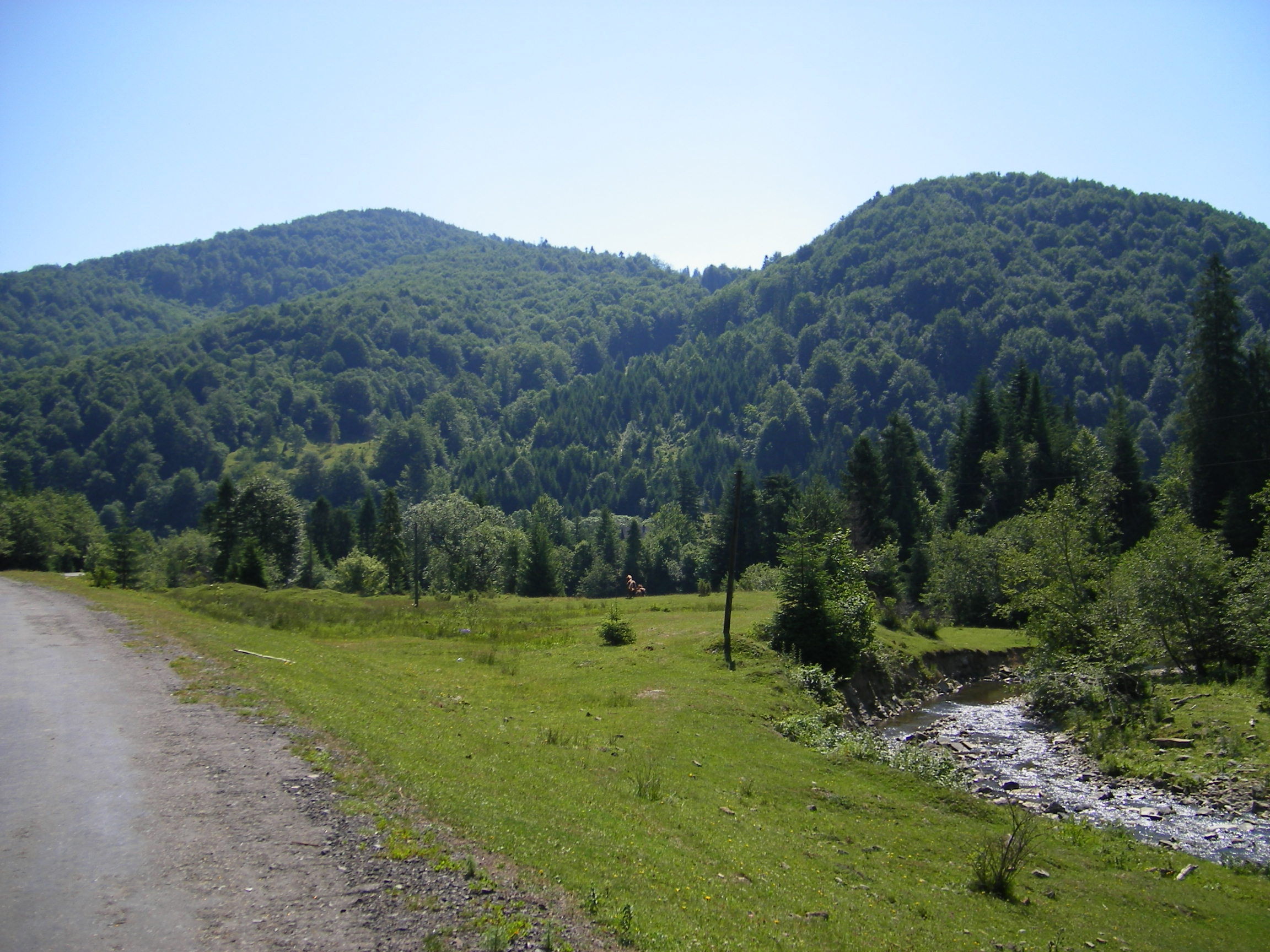 Landscape near Krynitsya, Turka Raion